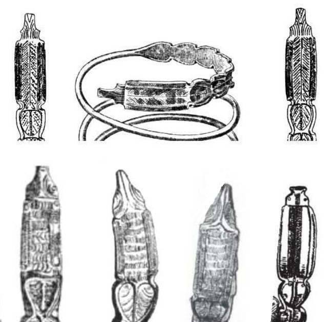 Dacian silver La Tene bracelet-ends (snake-heads)